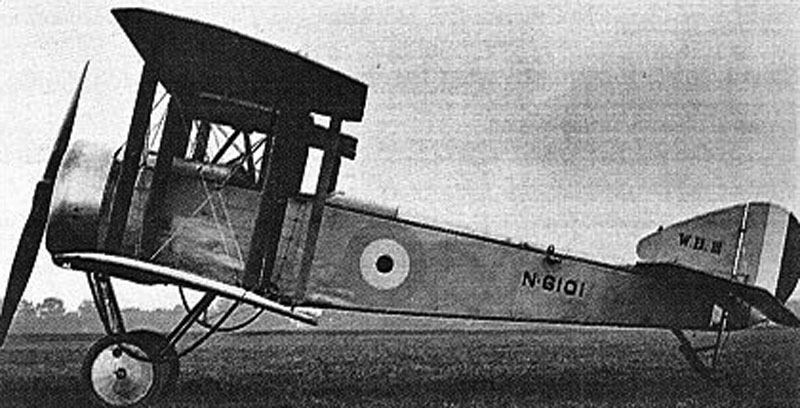 Beardmore W.B.III / S.B.3